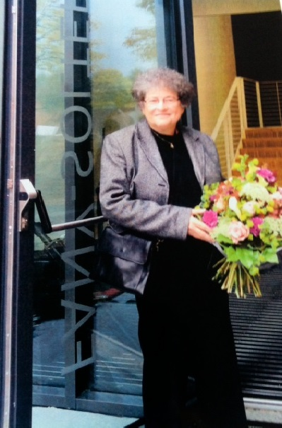 Fany Solter Haus _ Build in Karlsruhe